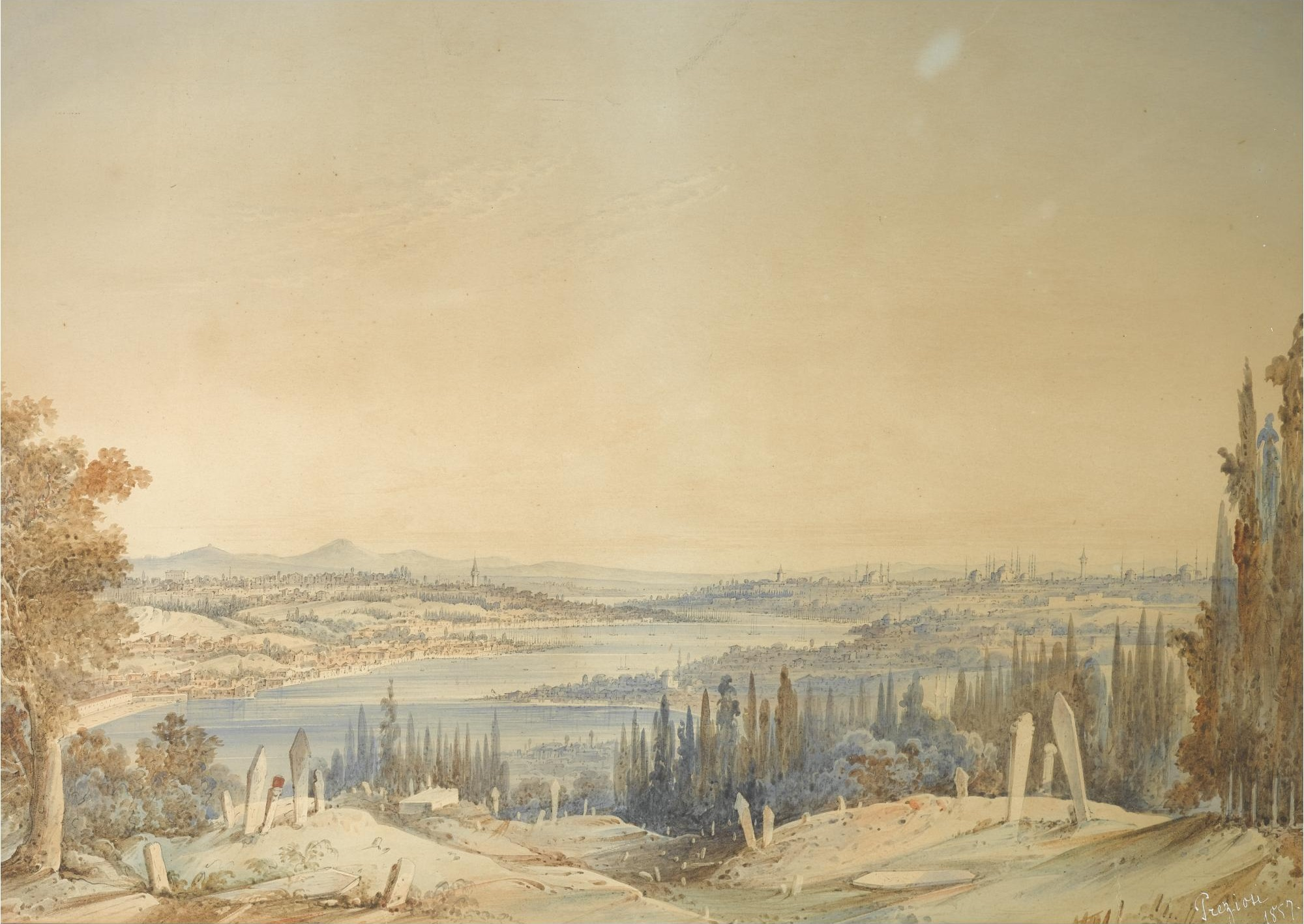 It's a painting made by Amedeo Preziosi. It is a landscape with pale colours. It also make sense for its showing a graveyard. I think, this photo is really important to see Istanbul's rich heritage.Currently it is like that, because when all the city changes, there is one certain thing which does not change is, graveyards! and it is in everywhere in Istanbul. In addition, those different shape of tombstones gives us some informations about the jobs of people who died. I think, it is a very considerable art piece to be seen by people who want to get the deep view of the Istanbul